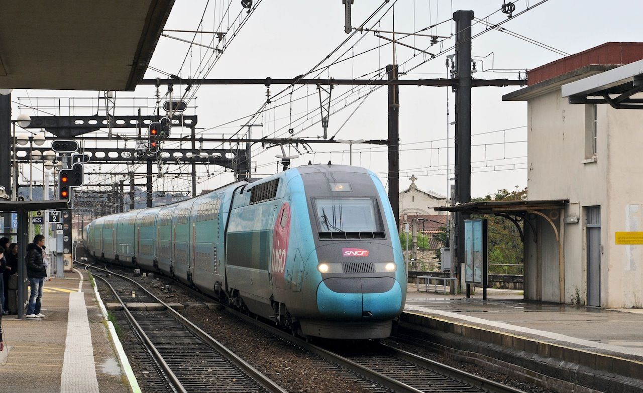 A Ouigo TGV train at Nimes, France